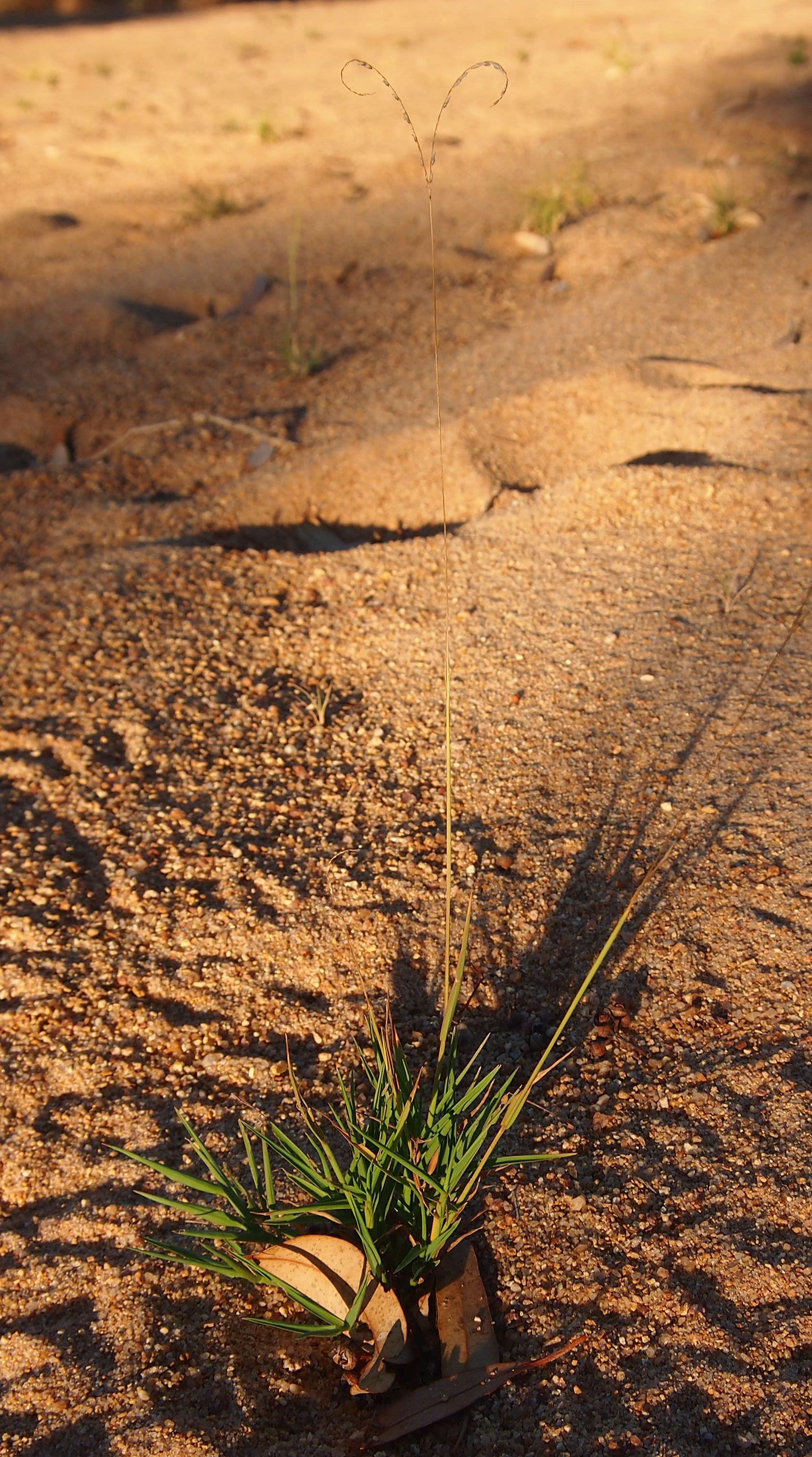 Digitaria ctenantha